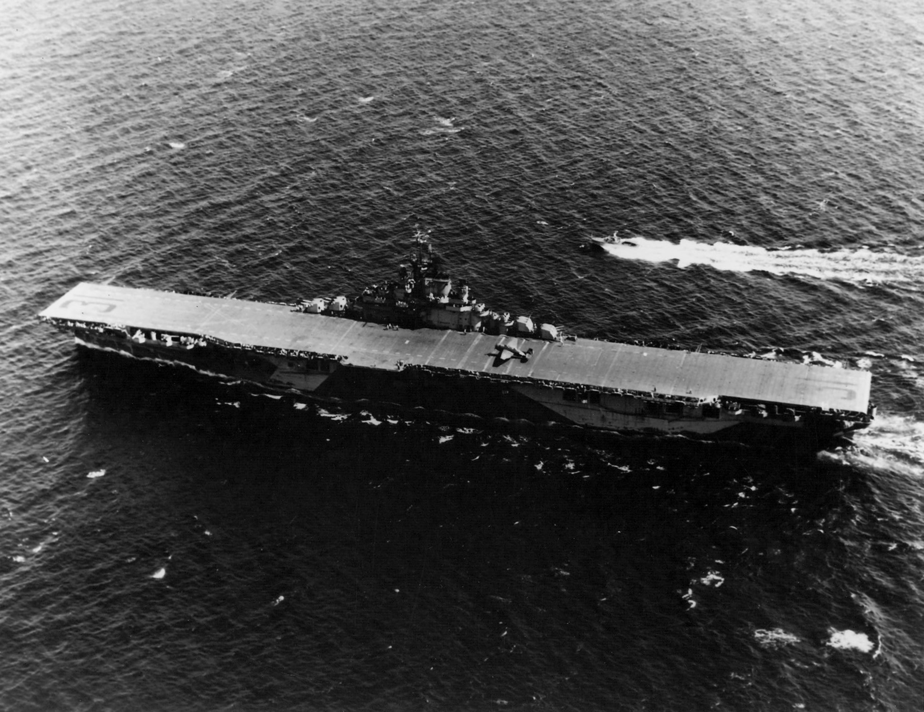 The U.S. Navy aircraft carrier USS Bon Homme Richard (CV-31) underway in the Gulf of Paria between Trinidad and Venezuela.